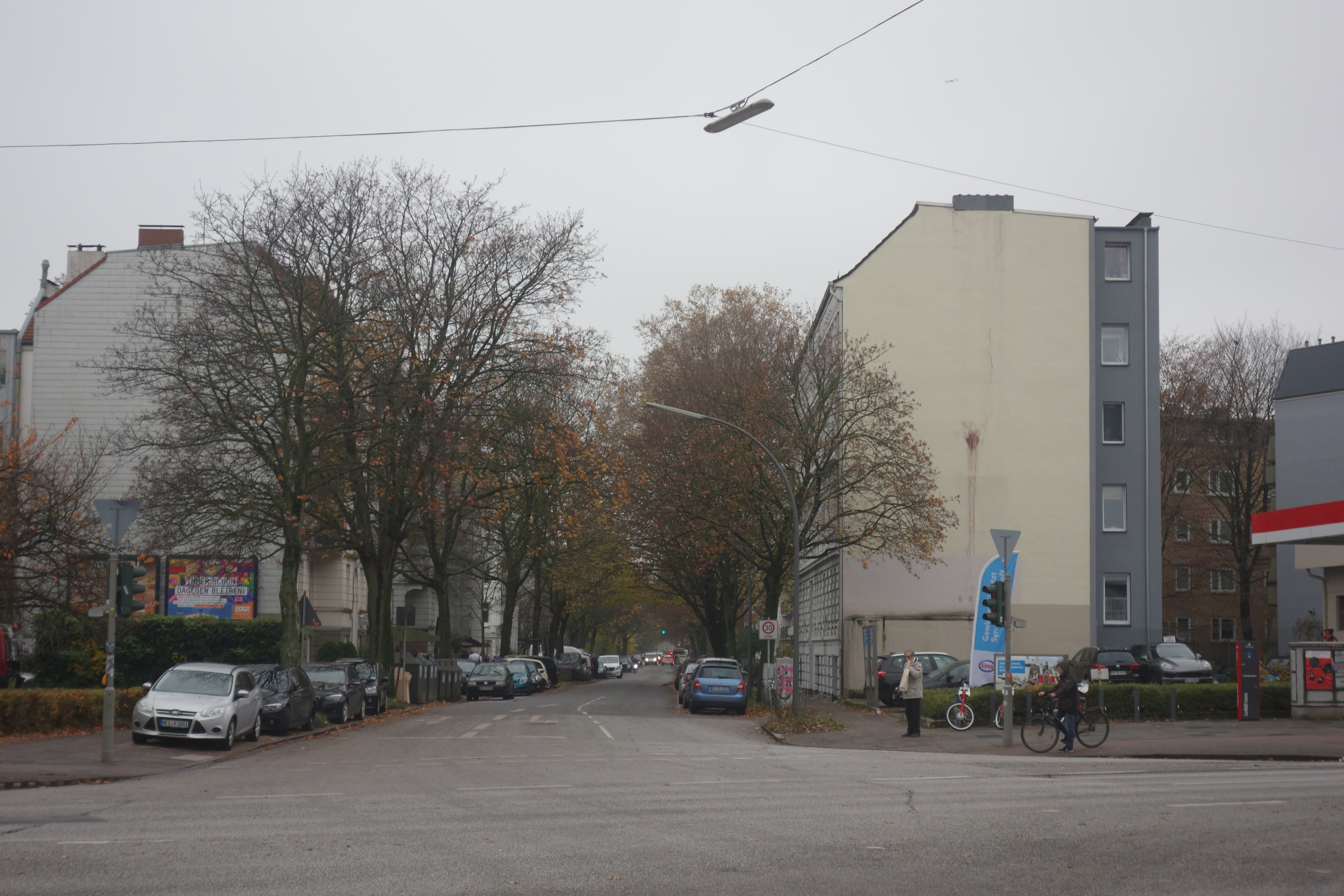 Street in Hamburg